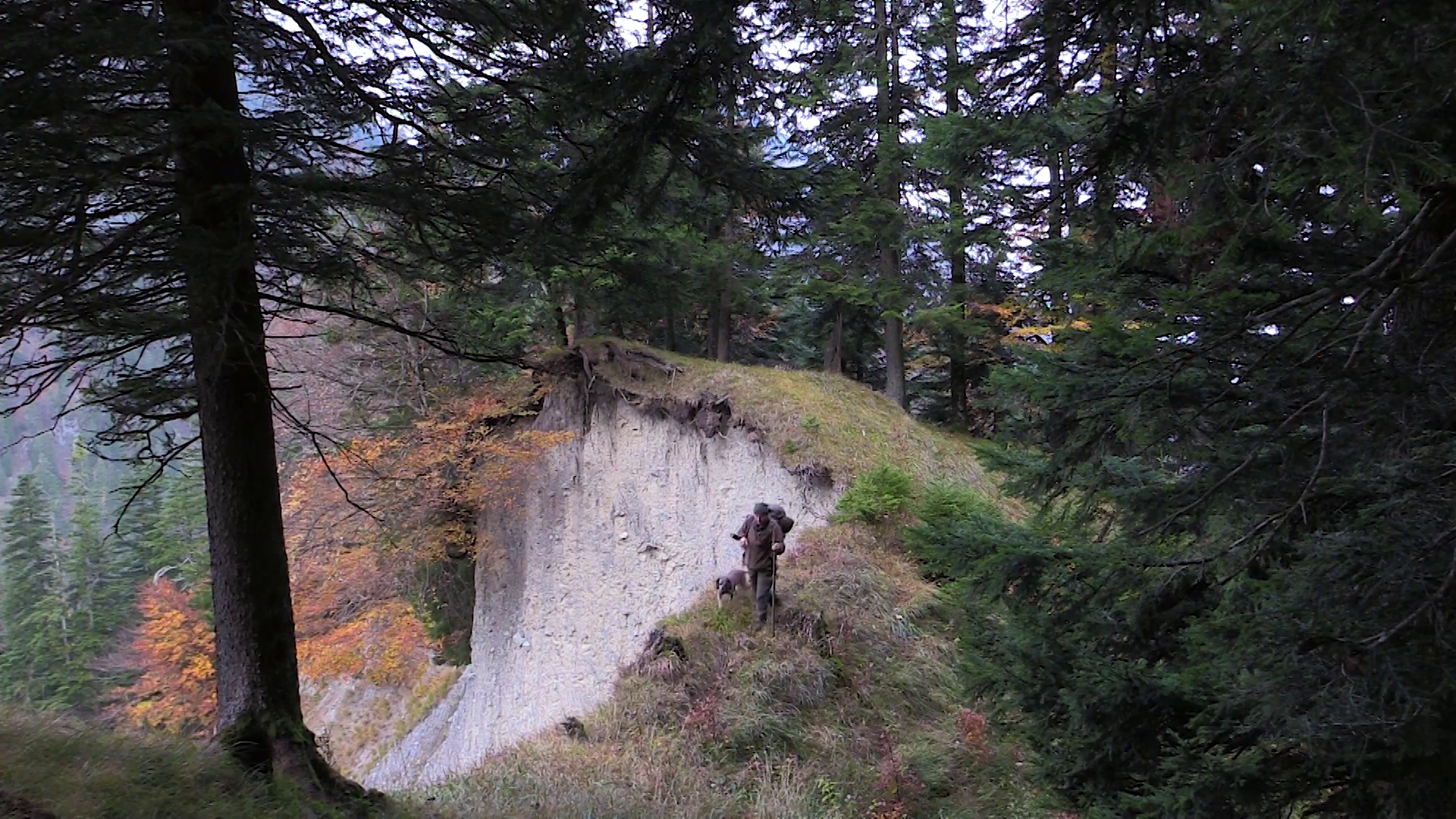 Austrian professional hunter ("Berufsjäger") Peter Tabernig with his dog on his ascent in the mountains. Vorarlberg, Austria - 2018